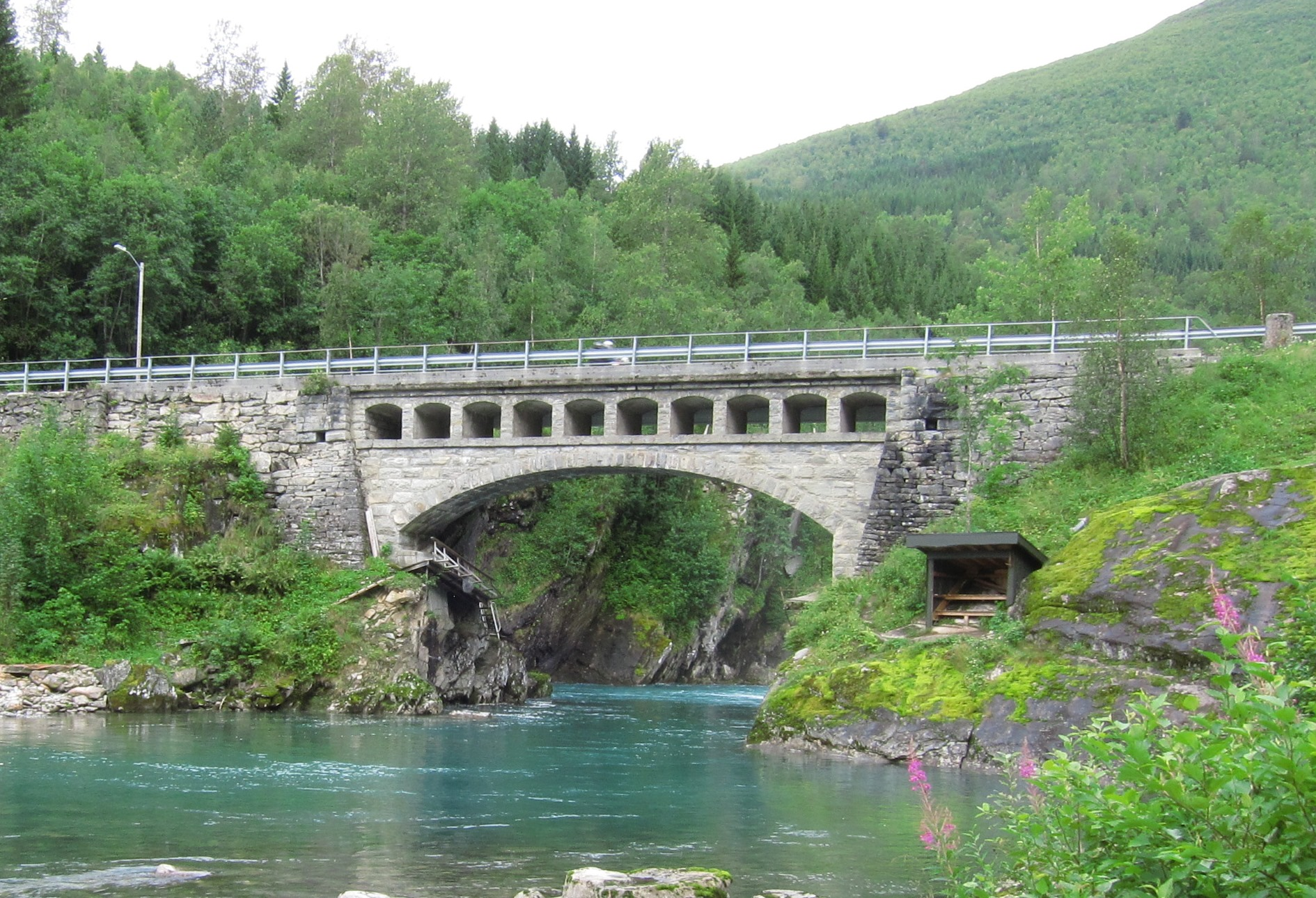 Hol bridge across Valldal river, county road 63 in Valldal, Norway.